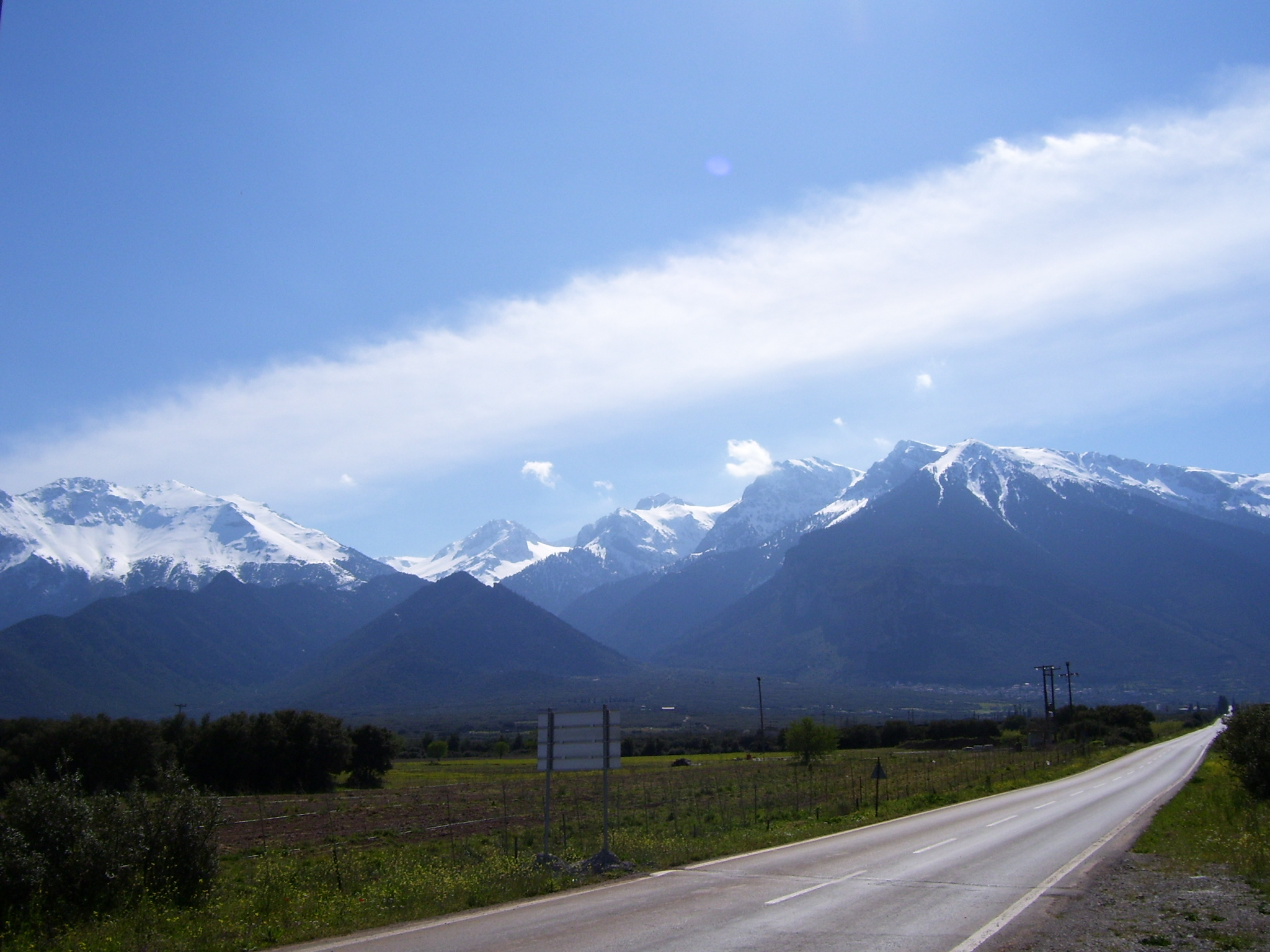 Parnassos Mountain